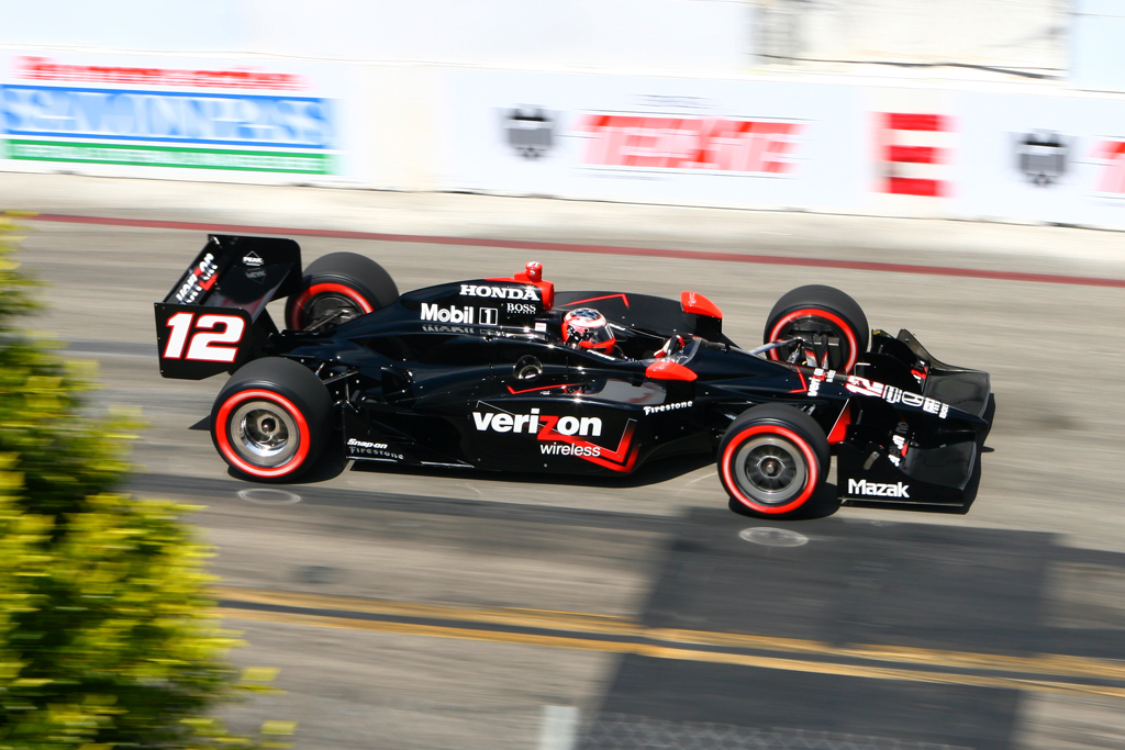 Will Power , 2009 Toyota Grand Prix